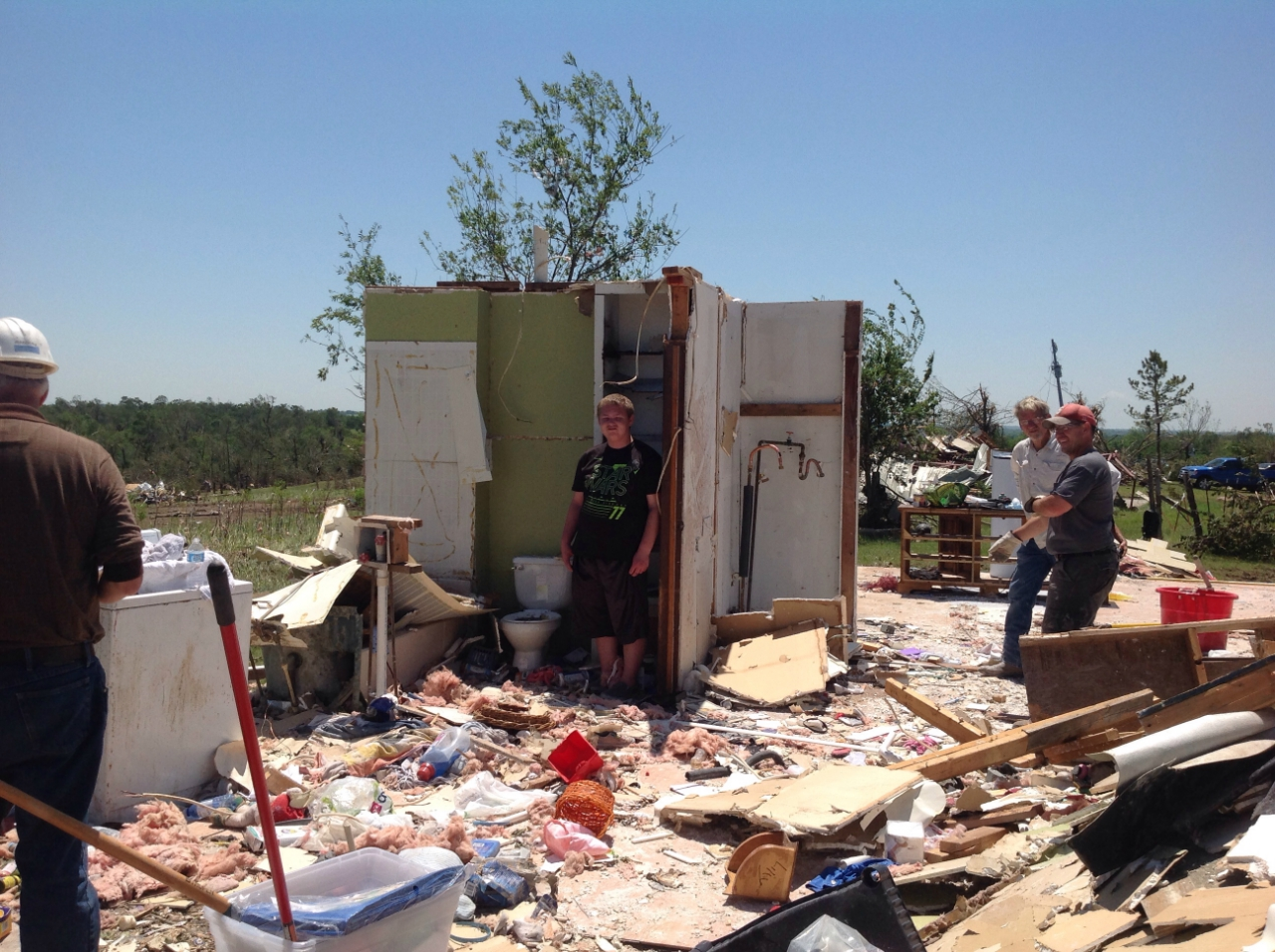 18 year-old Daniel Parks shows engineer and meteorologist Tim Marshall how he survived the Sulphur, OK EF3 tornado.